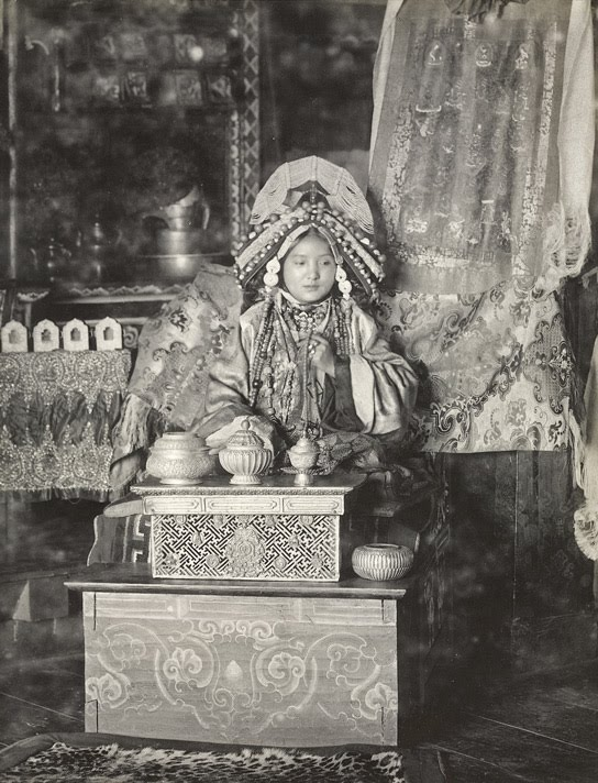 Photograph of the Maharani of Sikkim from the 'Wheeler Collection: Portraits of Indian Rulers,' was taken possibly by Johnston and Hoffmann c.1900. Stephen Wheeler, the donor of the collection, was presumably related to J. Talboys Wheeler, organiser of the 1877 durbar and author of 'The History of the Imperial Assemblage at Delhi' (London, [1877]). Full-length seated portrait of the Maharani of Sikkim, wife of Maharaja Thotab Namgue and stepmother of Maharaj Kumar Sidkyong Tulku. This photograph was possibly taken by John Claude White, c.1900 and marketed by Johnston & Hoffmann. The Maharaja of Sikkam's family originated from Lhasa in Tibet and settled in Sikkim in the mid 17th century. Puntso Namgye, the head of the family, was sent three Tibetan monks (professors of Myingmapa- the 'red cap' sect) to convert Lepchas of Sikkim to to their sect of Buddhism. The descendants of Puntso Namgye became the Raja's of Sikkim.